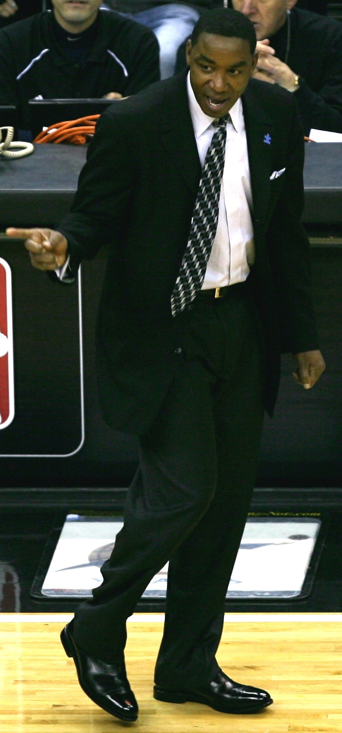 Isiah Thomas of the New York Knicks talking with a referee